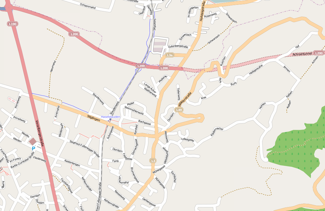 This map may be incomplete, and may contain errors. Don't rely solely on it for navigation.